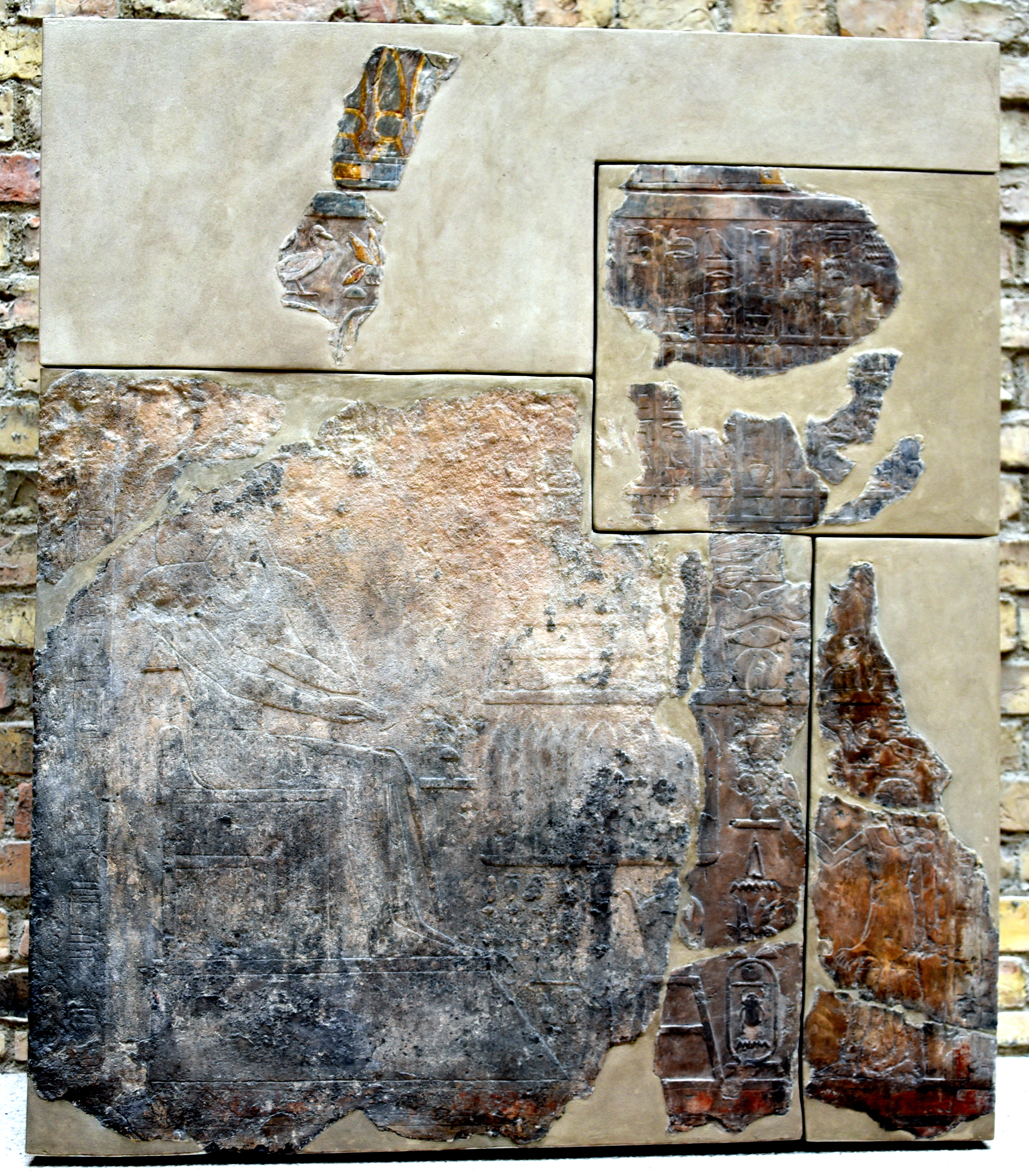 Thutmose II in front of an offering table. Temple relief from the mortuary temple of Queen Hatshepsut at Deir el-Bahari, Egypt. New Kingdom, 18th Dynasty, c. 1480 BCE. Neues Museum, Berlin, Germany. Limestone.